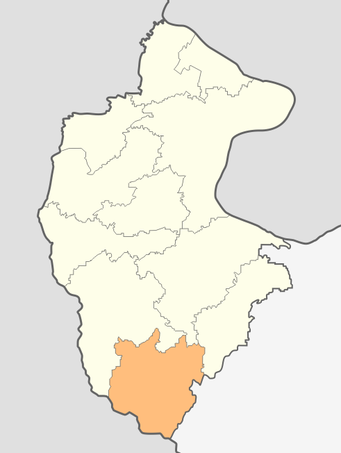 Map of Chuprene municipality, Vidin Province